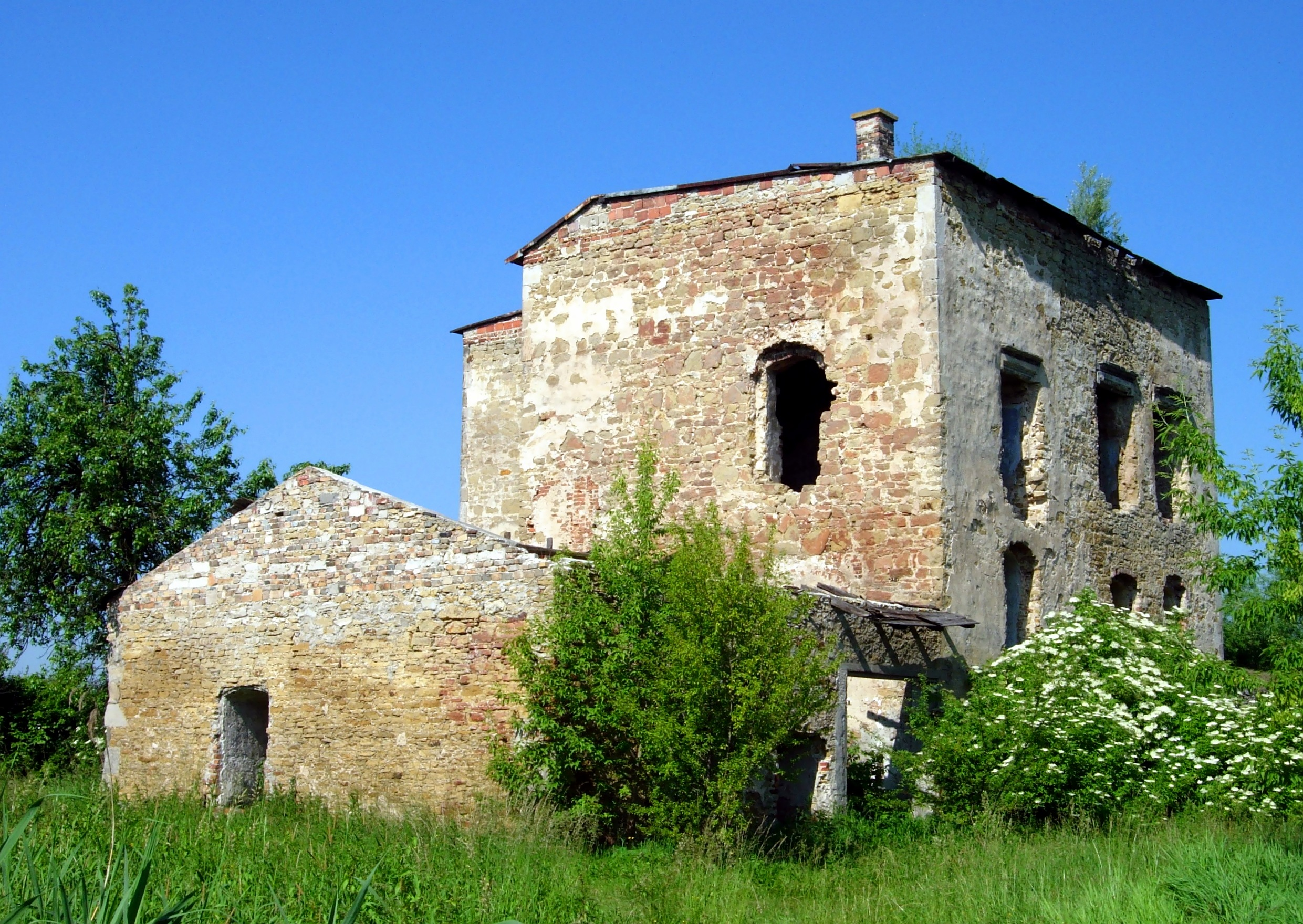 The ruins of the castle in Ćmielów